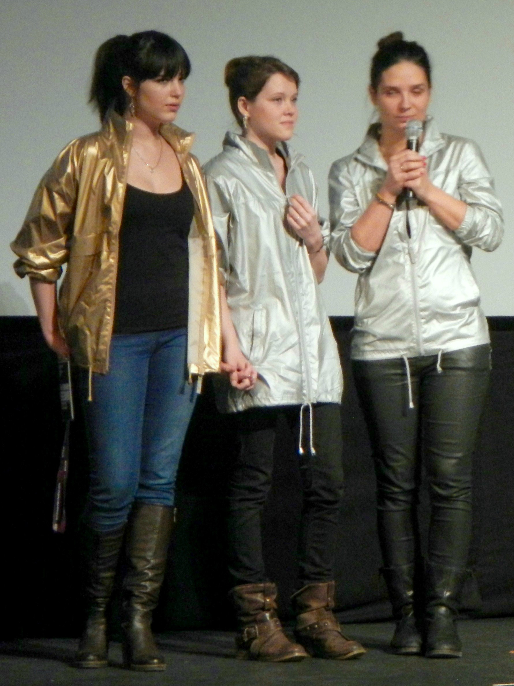 L-R: Michalina Olszańska, Marta Mazurek, Agnieszka Smoczyńska. "The Lure," Sundance Film Festival 2016, Park City UT.